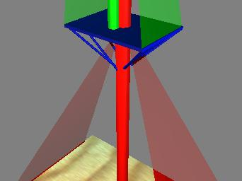 A diagram showing futtock shrouds (in blue) beneath the top (rectangular piece) of a square rigged ship.